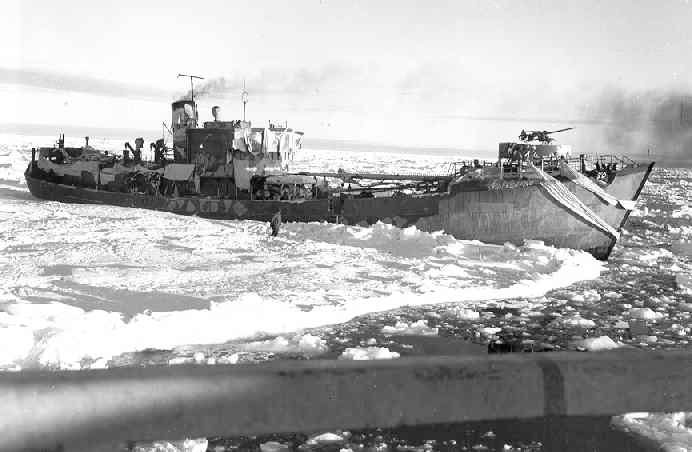 Callao (IX-205) as the armed German Naval Auxiliary vessel Externsteine off Greenland after being captured by the Coast Guard in October 1944. US Coast photo